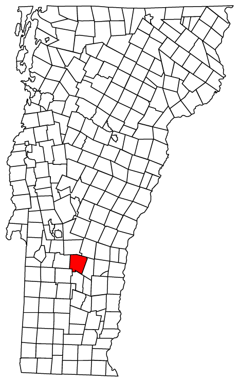 Description: Map of Vermont towns with Mount Holly highlighted Source: Map created by Jared C. Benedict on 26 March 2004. Copyright: © Jared C. Benedict.